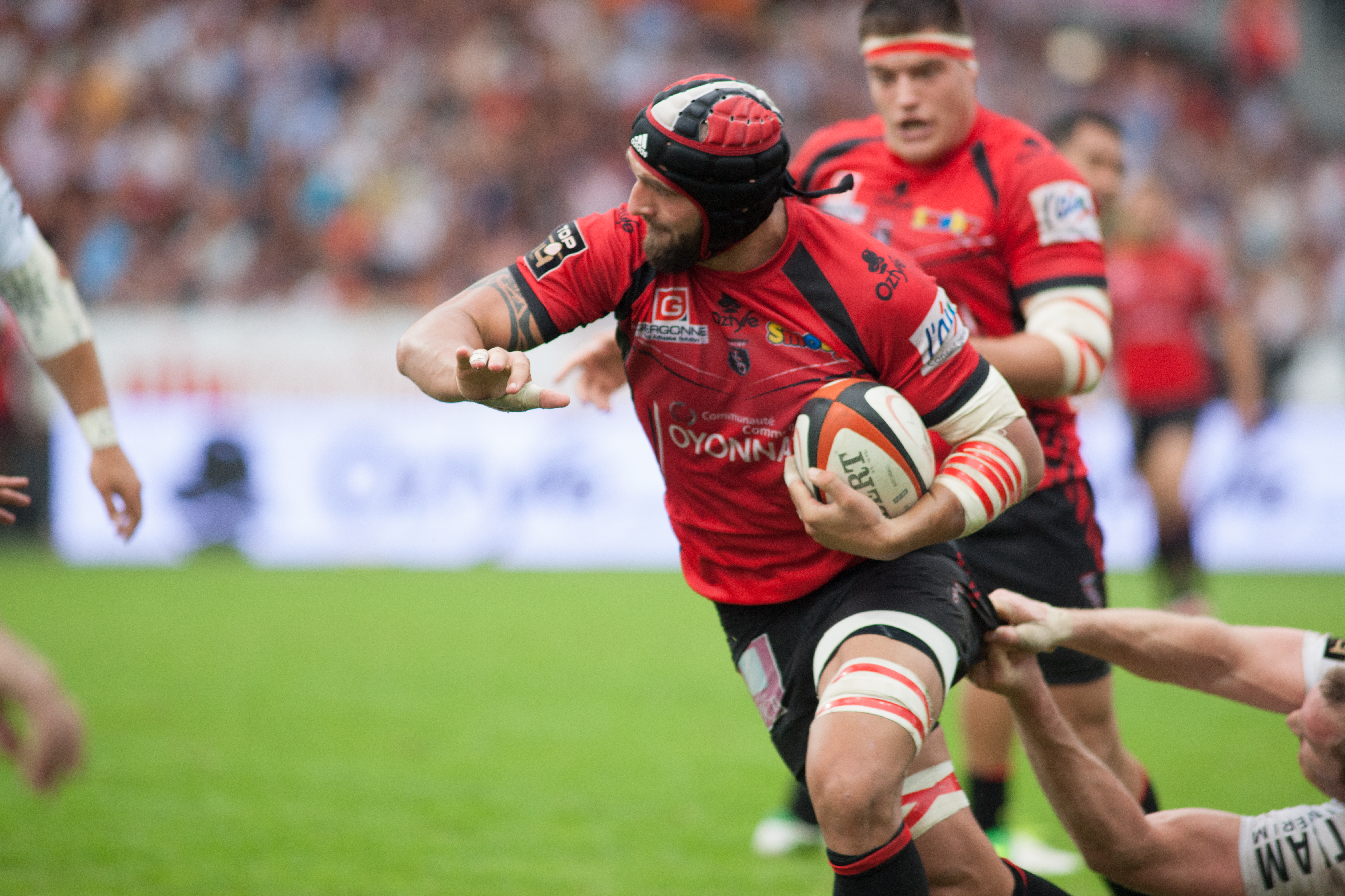 The making of this document was supported by Wikimedia CH. (Submit your project!) For all the files concerned, please see the category Supported by Wikimedia CH. US Oyonnax - Rugby club toulonnais, 28th September 2013